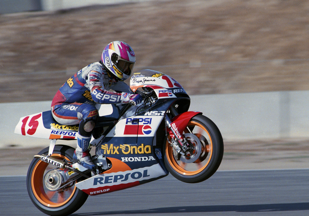 Luis D'Antin at USGP Laguna Seca